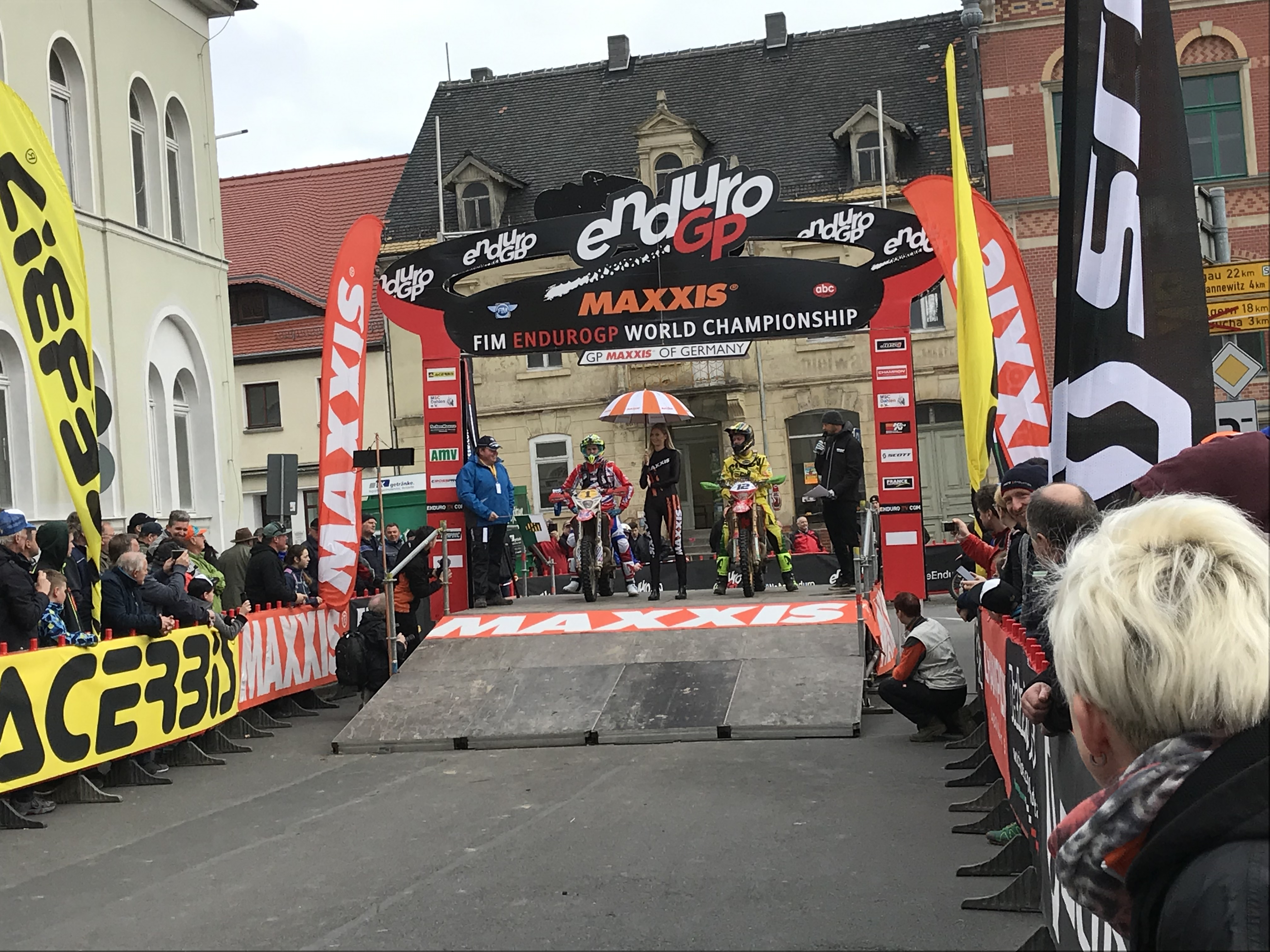 Start on day 2 of Germany GP at Dahlen market, left Steve Holcombe and right Bradley Freeman, both from Britain